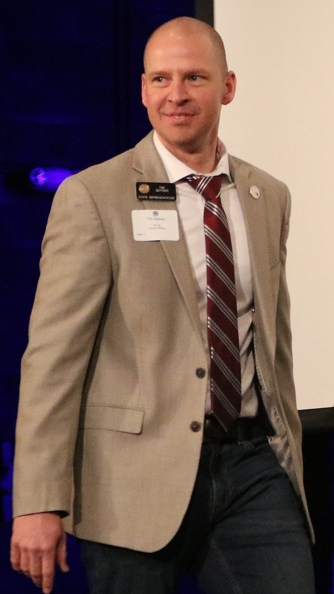 Tim Geitner, a politician from Colorado.